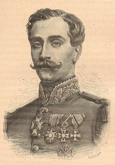 portrait of General Georges de Pimodan 1822-1860